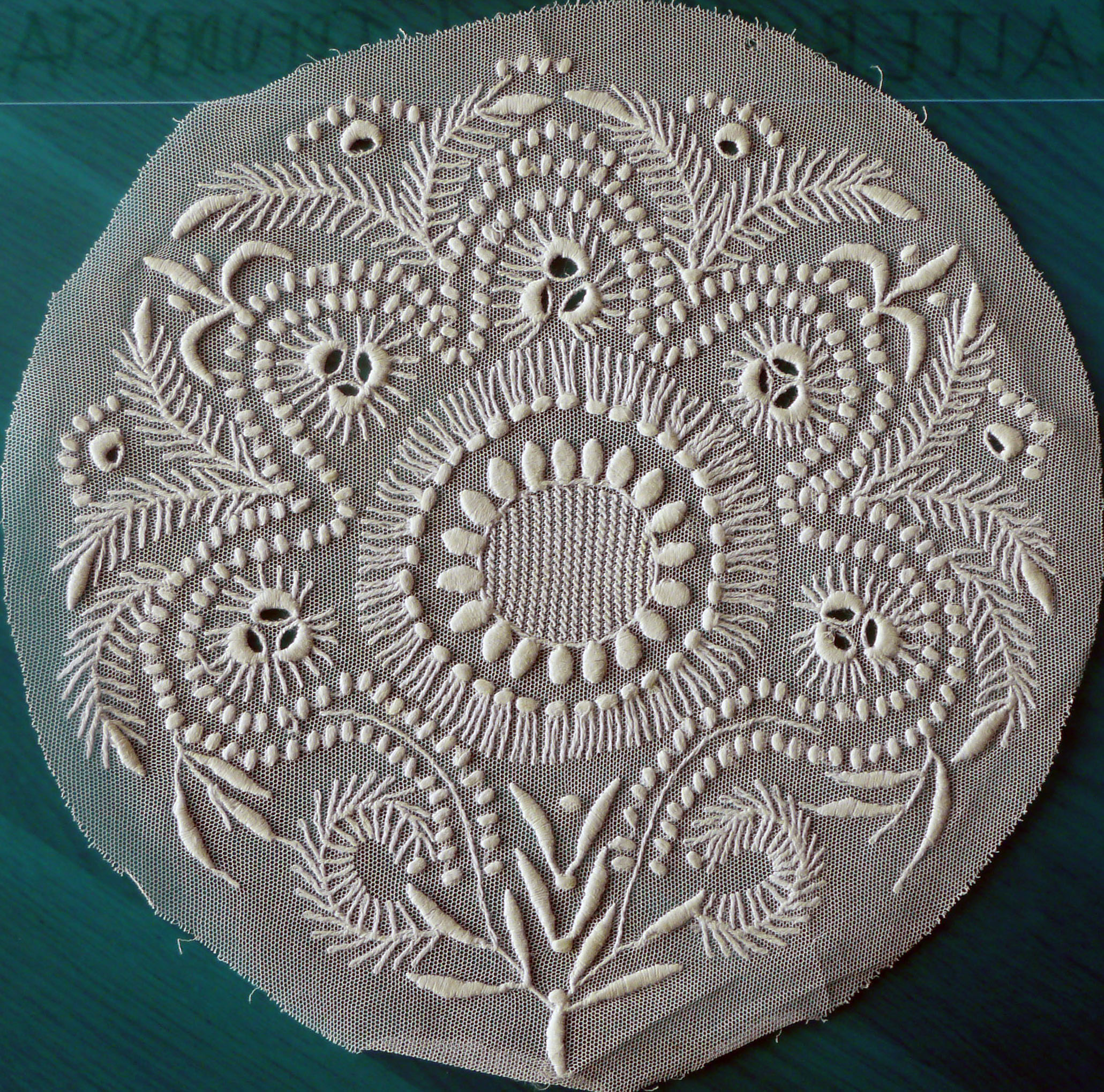 Sample of St. Gallen Embroidery